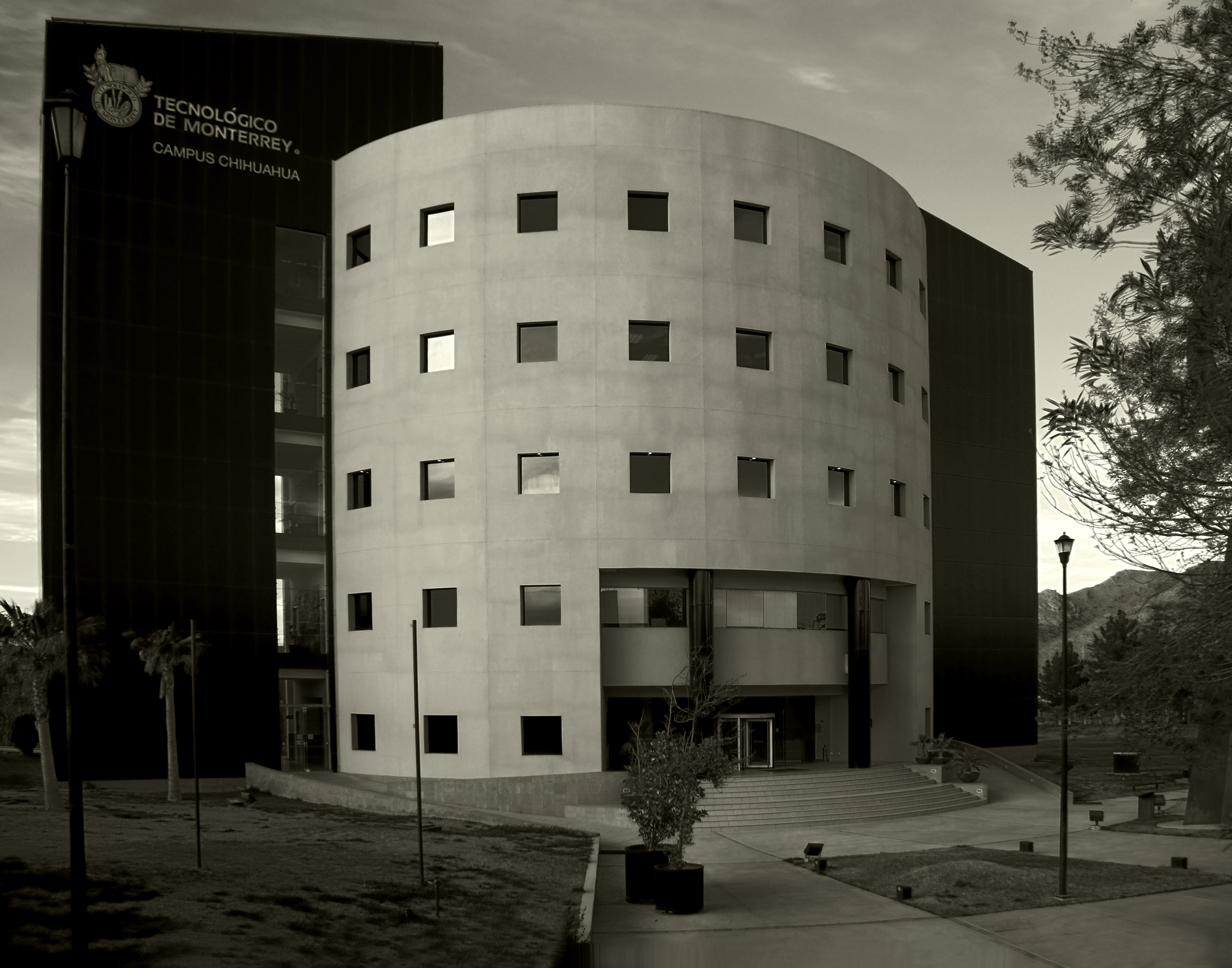 The Engineering Building at the Monterrey Institute of Technology and Higher Education, Chihuahua Campus.